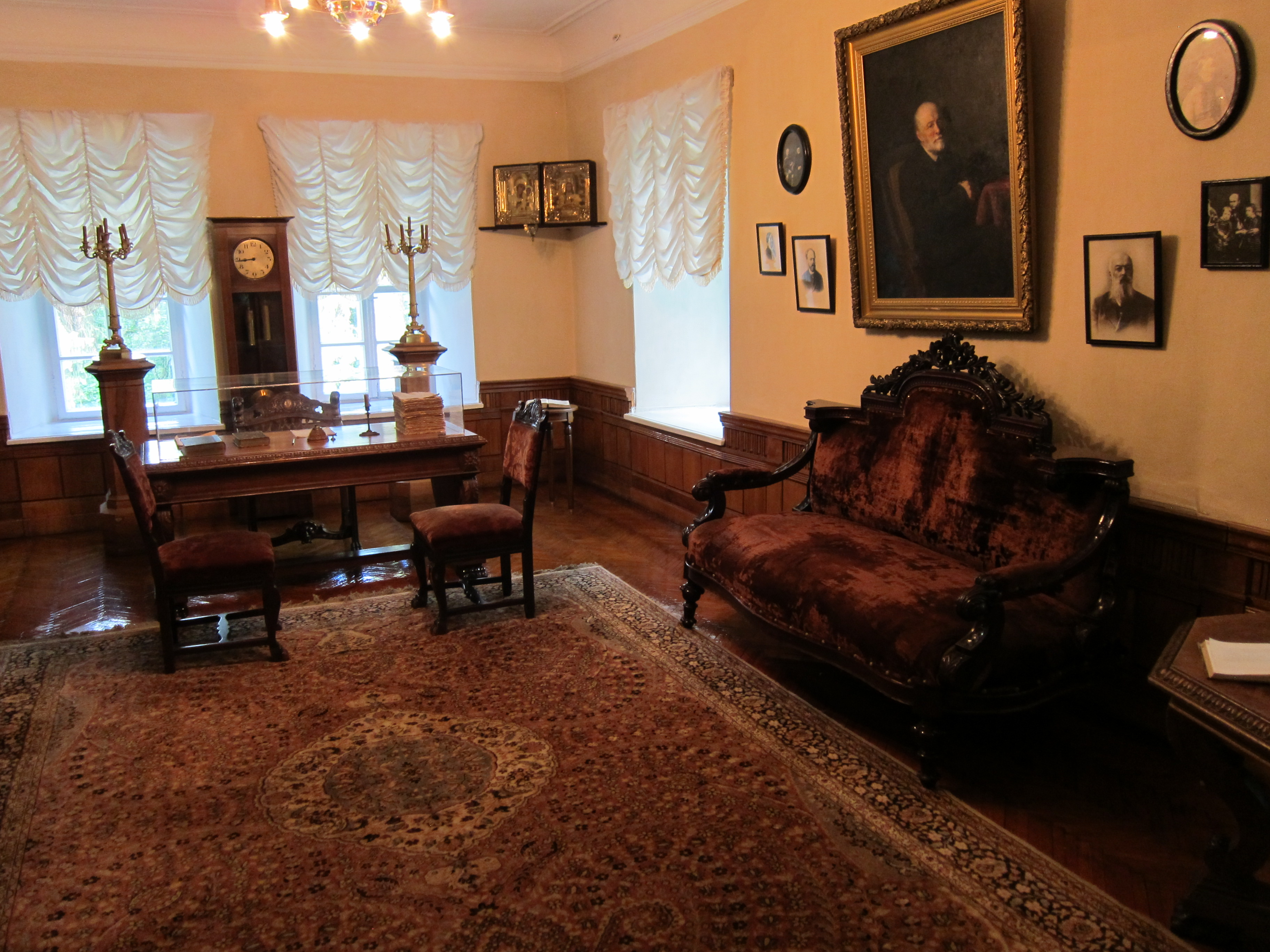 The National Pirogov's Estate Museum. Vinnytsya, Ukraine